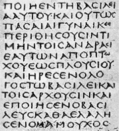 "[...]published in all his empire, and thus all the wives shall give to their husbands honour, both to great and small. And this advice pleased the king and the princes; and the king did according to the word of Memucan."